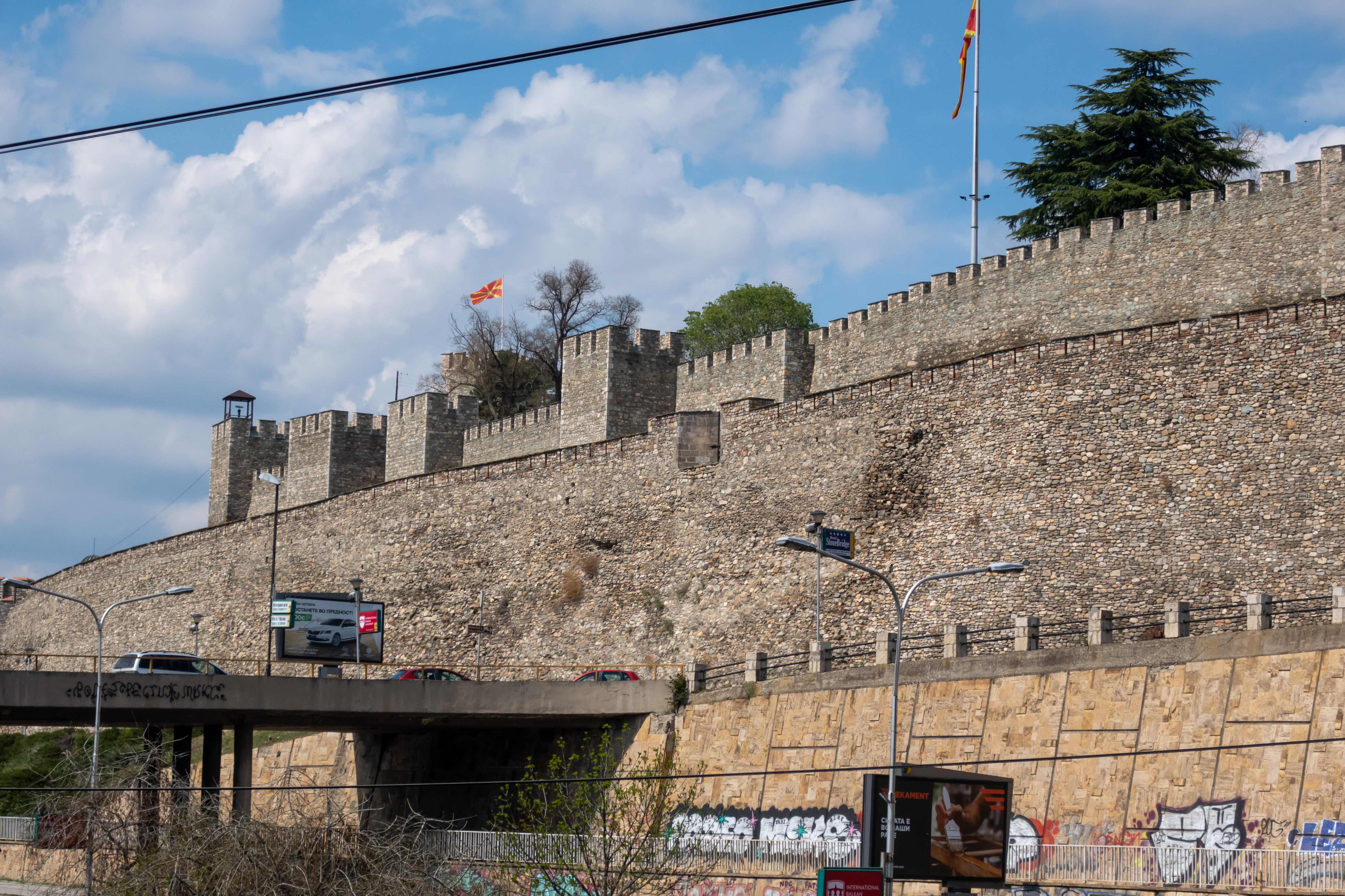 Skopje